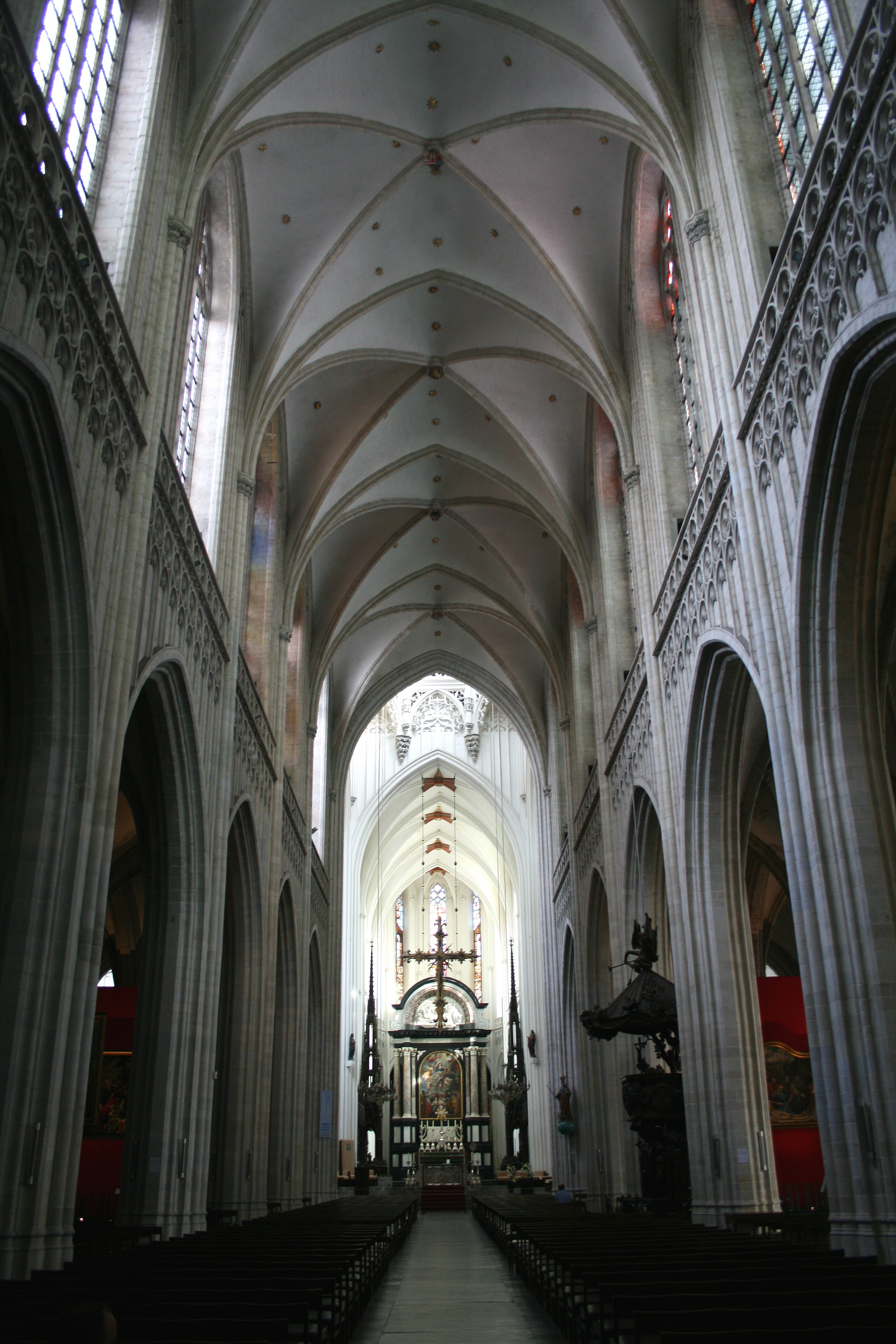 Nave of the Cathedral of Our Lady, Antwerp, Belgium (1352-1521).